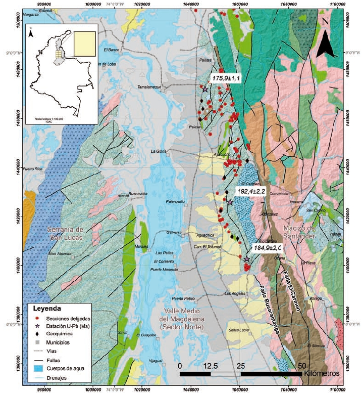 Geologic map of the northern Middle Magdalena Valley with Noreán Formation age dating sites